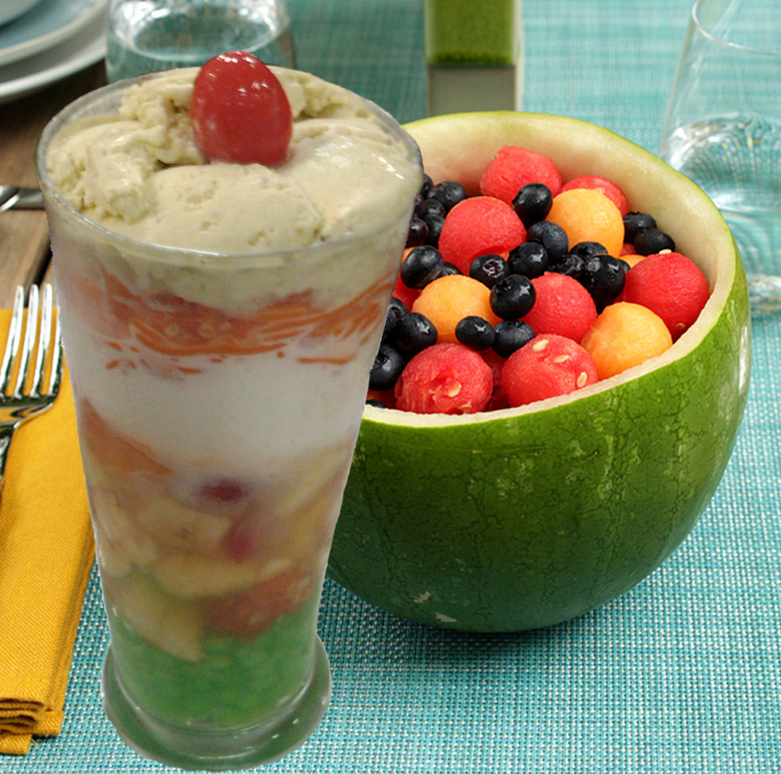 Thalassery Falooda- A cocktail of Fruit salad, Dry fruits, Cashew-nuts, Takmania rose syrup, milk, vanila icecream